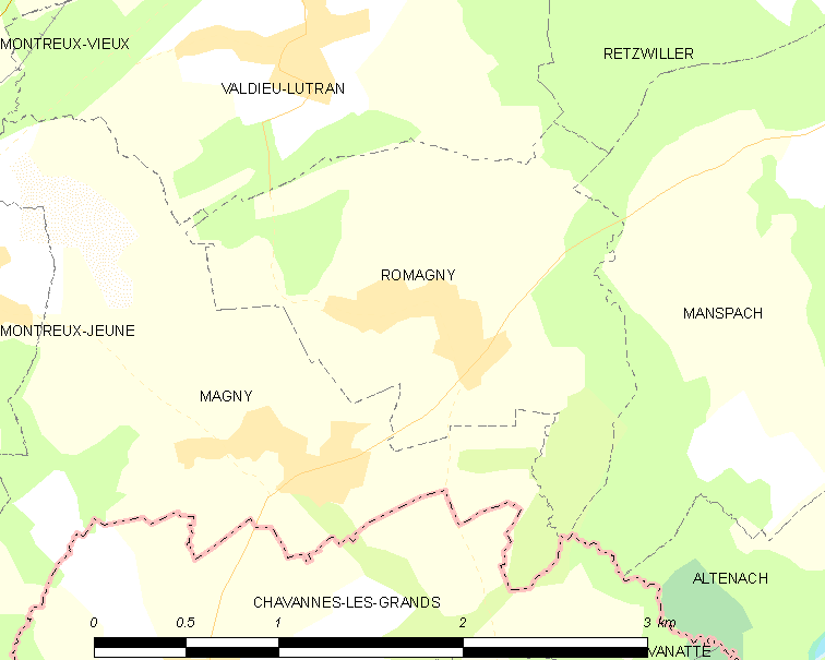 Map of French municipality